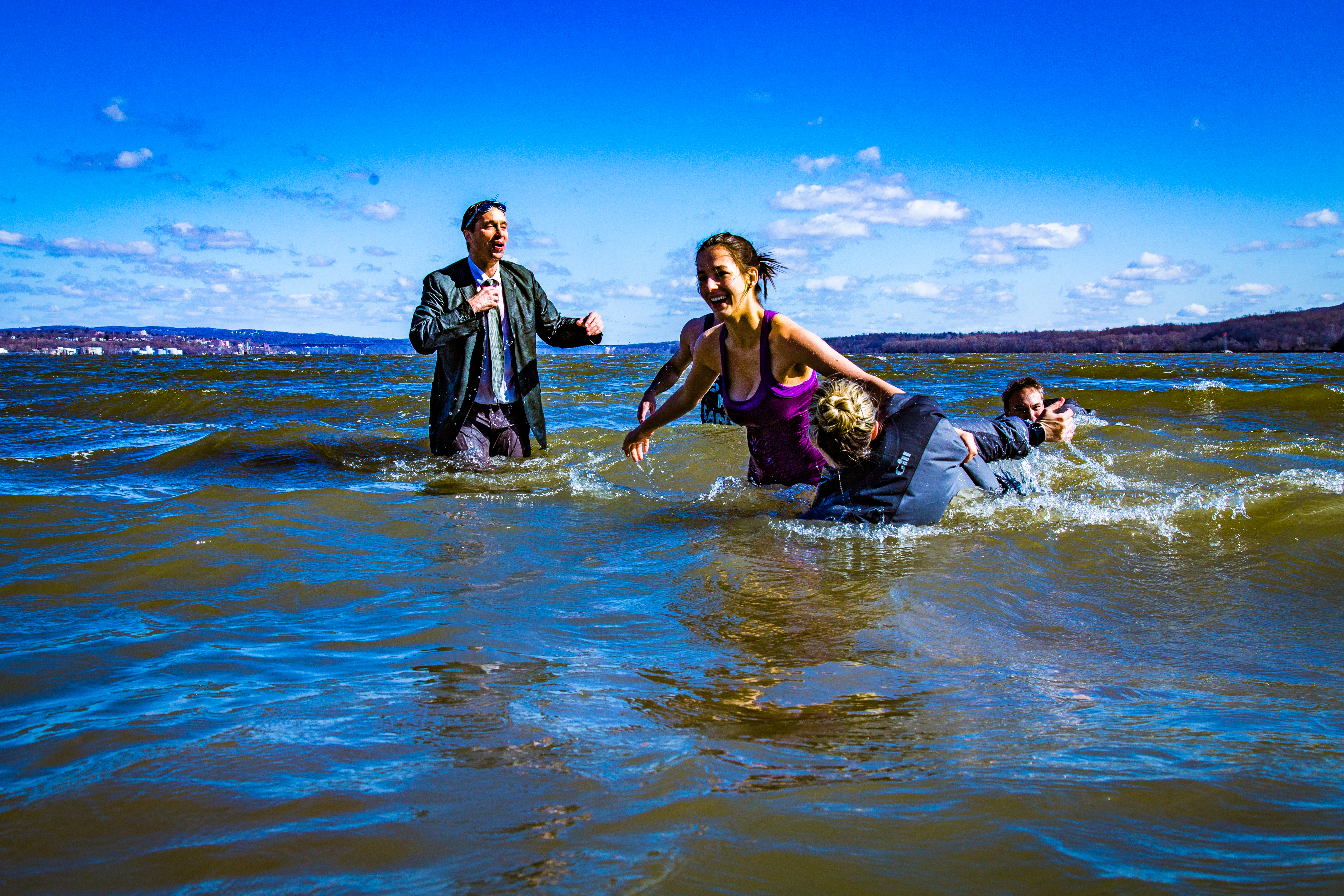 A long-standing tradition at Storm King is the annual "Plunge" - students and faculty jump into the Hudson river.